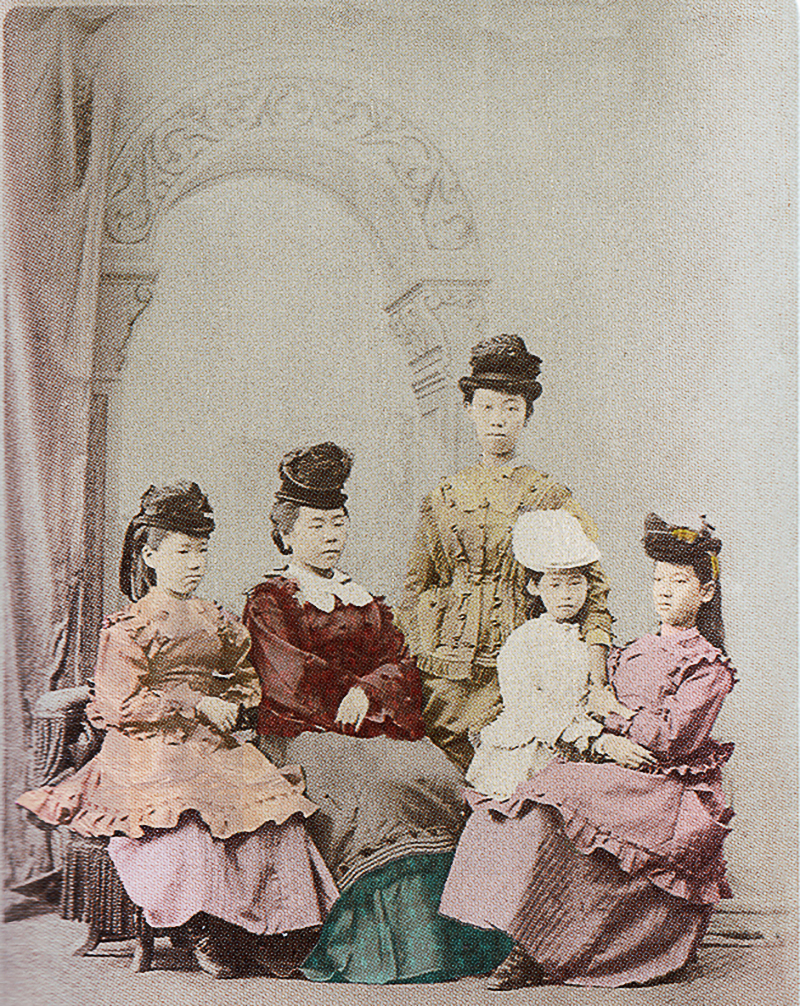 The first Japanese study-abroad female students to the US sponsored by the Meiji Government: from left, Shigeko Nagai (age 10), Teiko Ueda (16), Ryōko Yoshimasu (16), Umeko Tsuda (1864–1929, age 9 in the picture) and Sutematsu Yamakawa (1860–1919, age 12 in the picture).